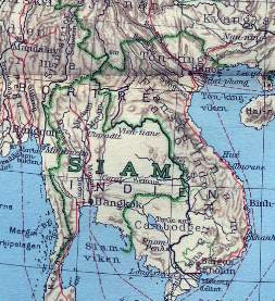 From an atlas created 1930